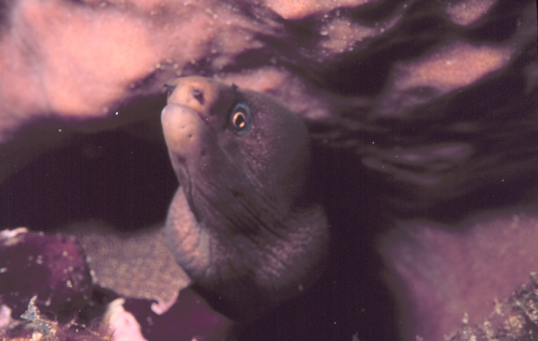 Viper moray eel - Enchelycore nigricans Image ID: reef1514, NOAA's Coral Kingdom Collection Location: Caribbean Sea